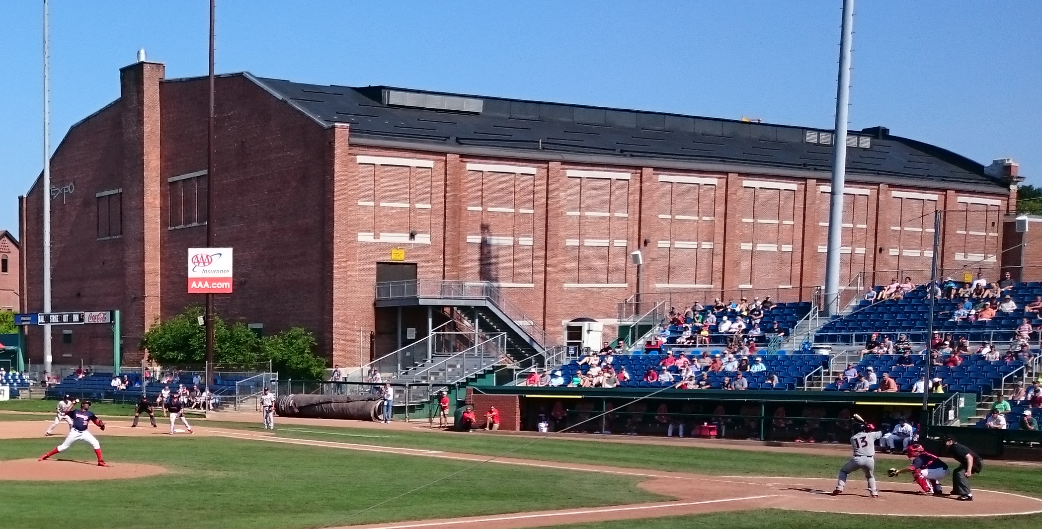 Portland Sea Dogs vs. Akron RubberDucks at Hadlock Field, on August 16, 2015 with the Portland Exposition Building in the background.